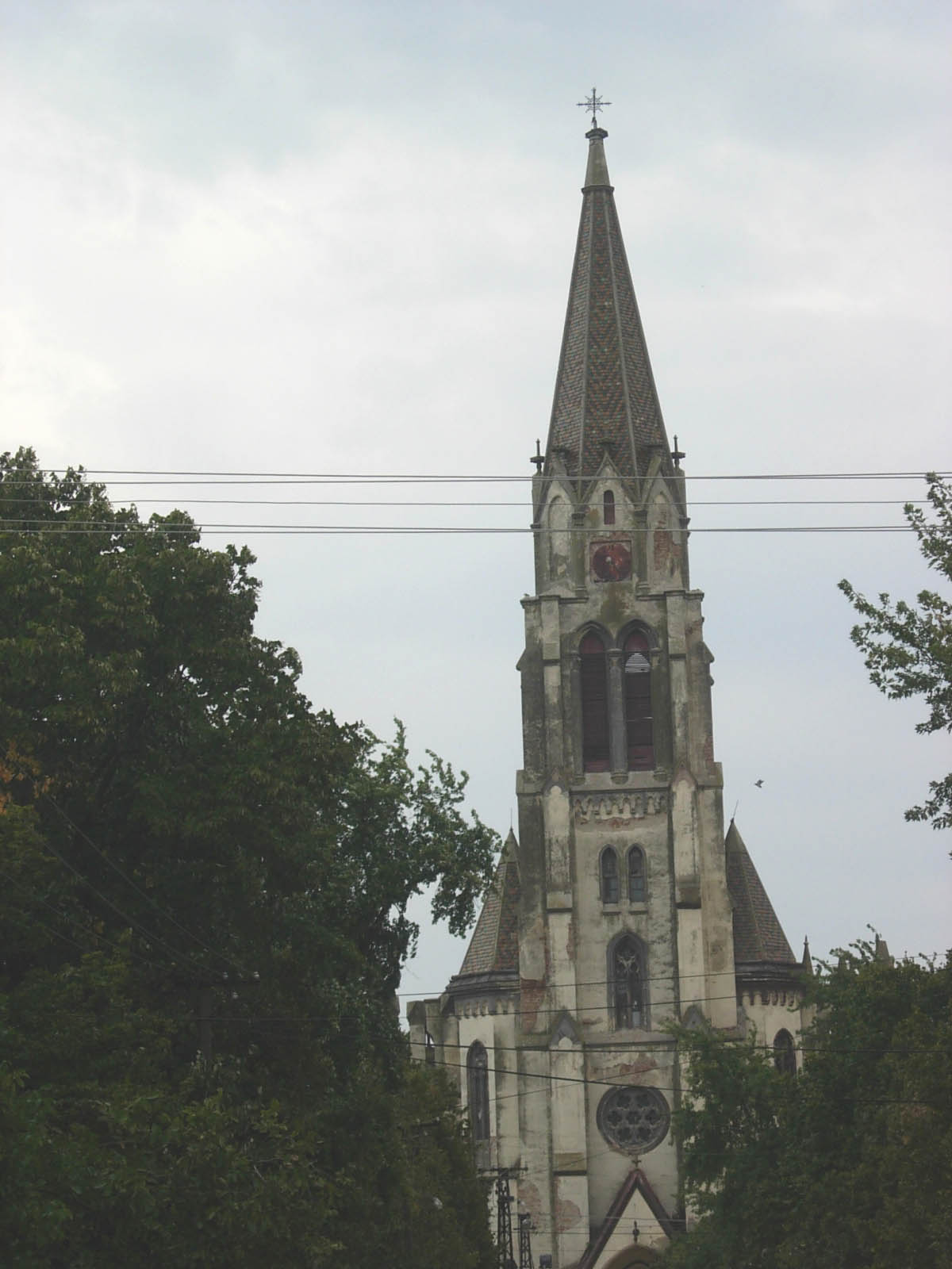 The Ascension of the Blessed Virgin Mary Catholic Church in Jaša Tomić.